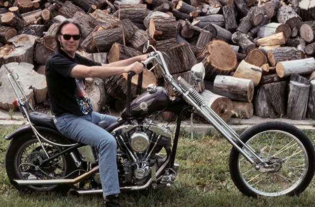 Neil Young sitting on a Harley chopper in Newell, South Dakota, near Sturgis, circa 1992.